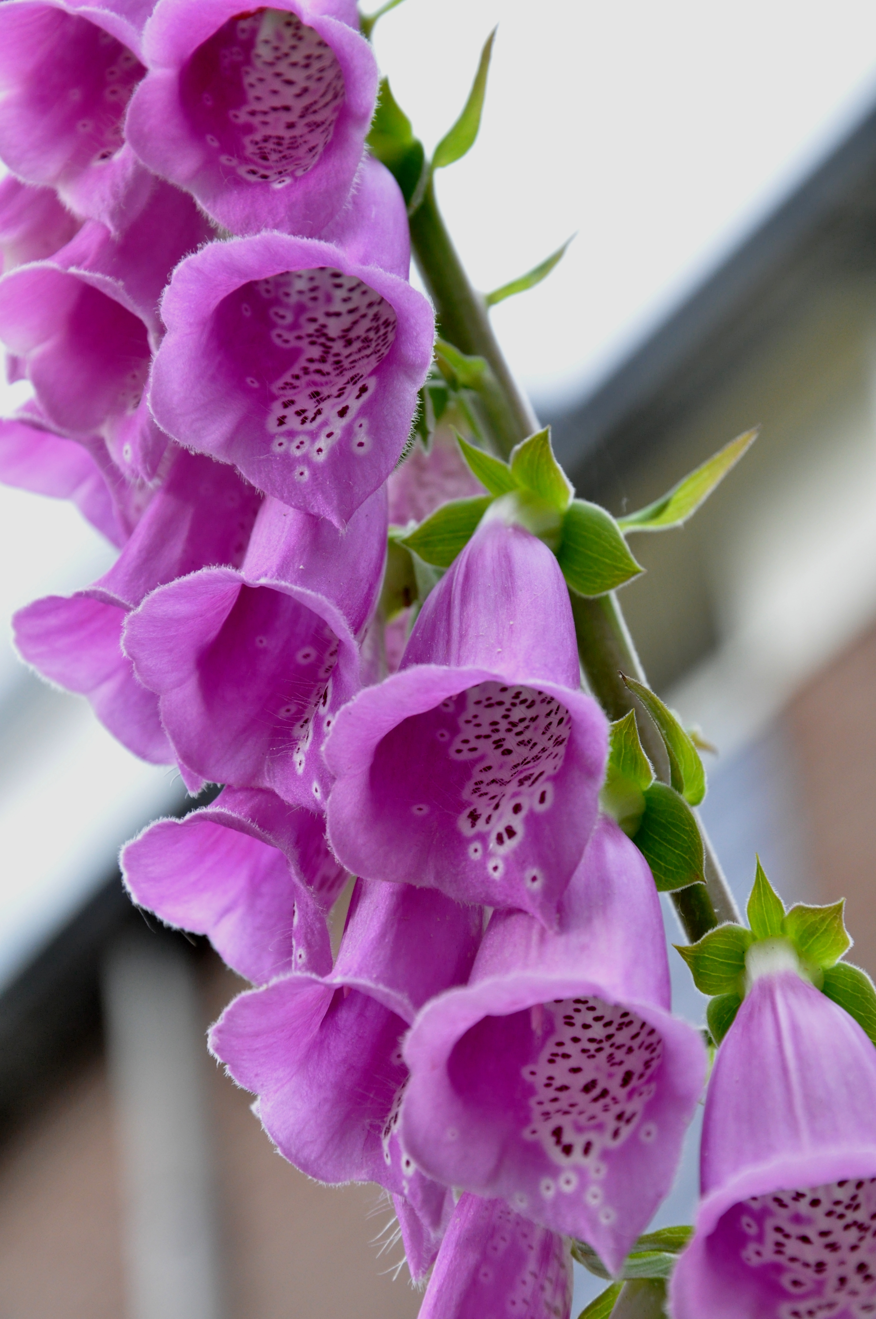 Foxglove